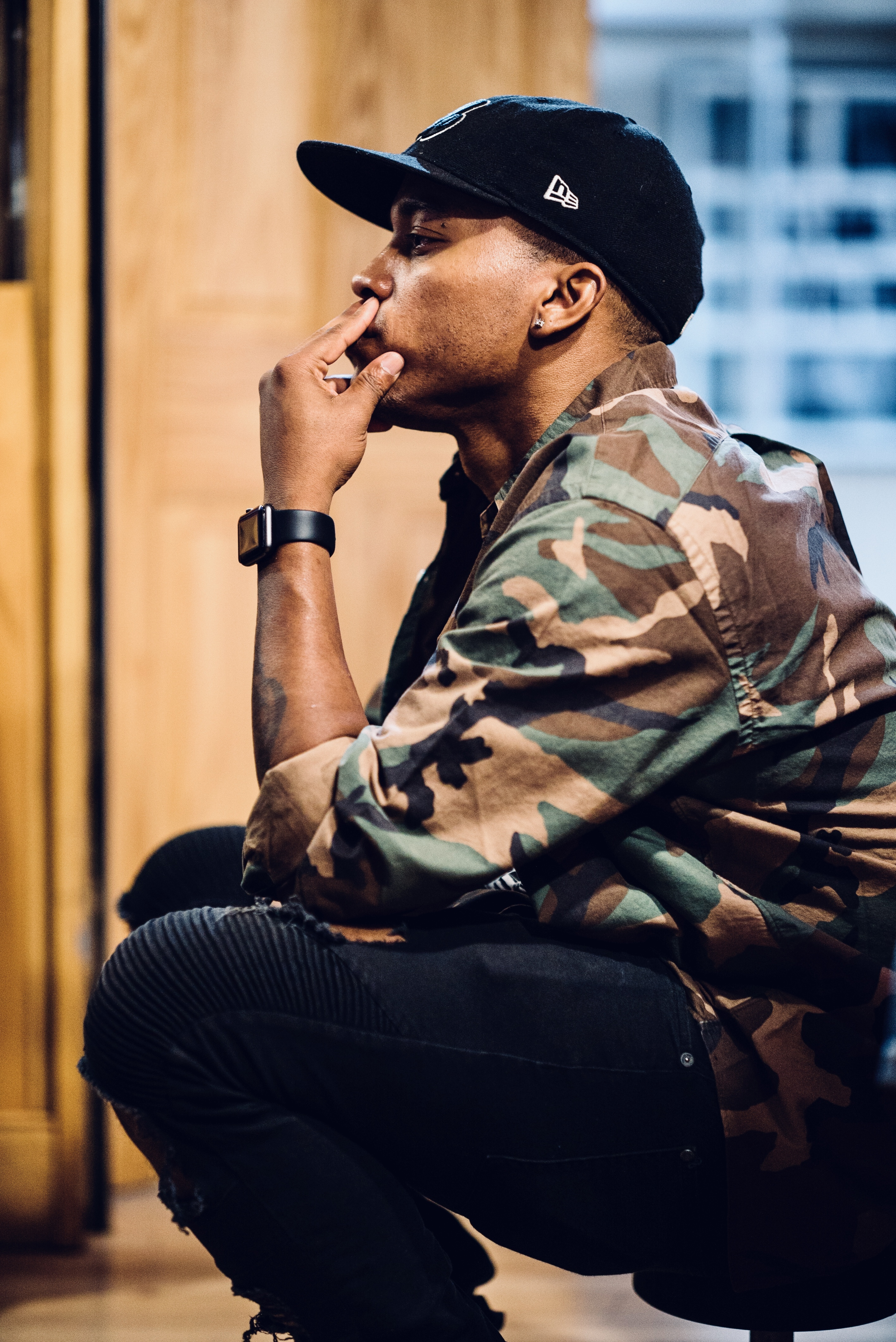 Organic songwriting